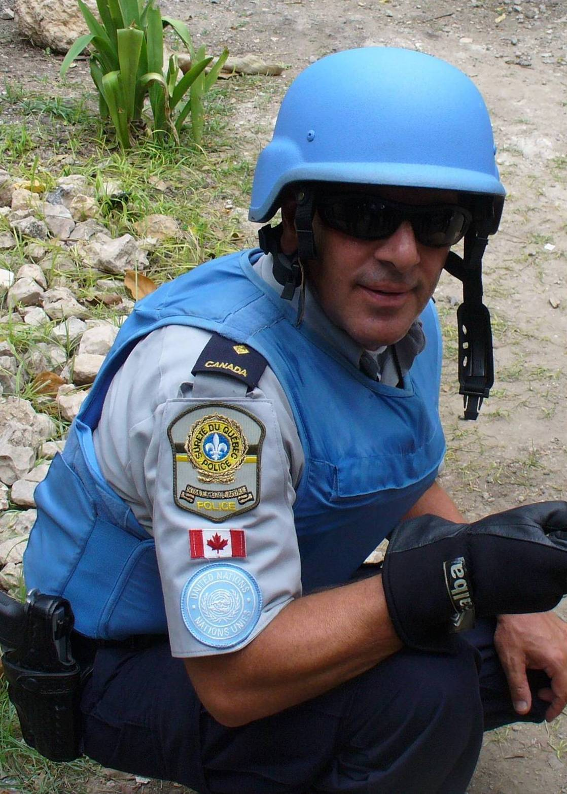 UNPOL from Sûreté du Québec